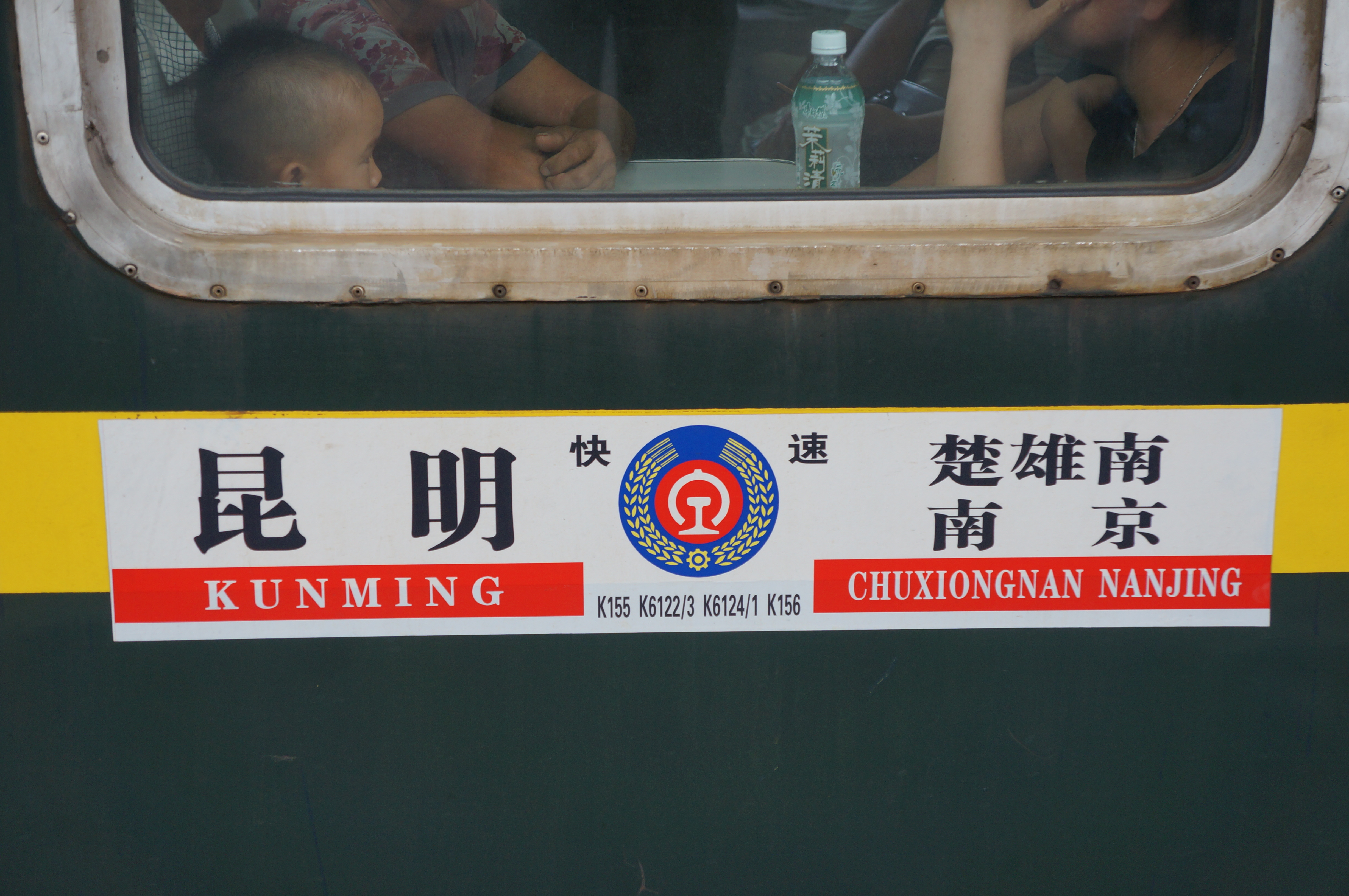 K155 156 inforboad in 201806